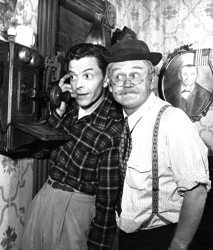 Photo of Cliff Arquette as Charley Weaver and Dave Willock from the short-lived television show Dave and Charley, 1952. This appears to be one of the first photos of Arquette as Charley Weaver. Both men had a radio show of the same name before going on to television with it. This is for the premiere of the television show.